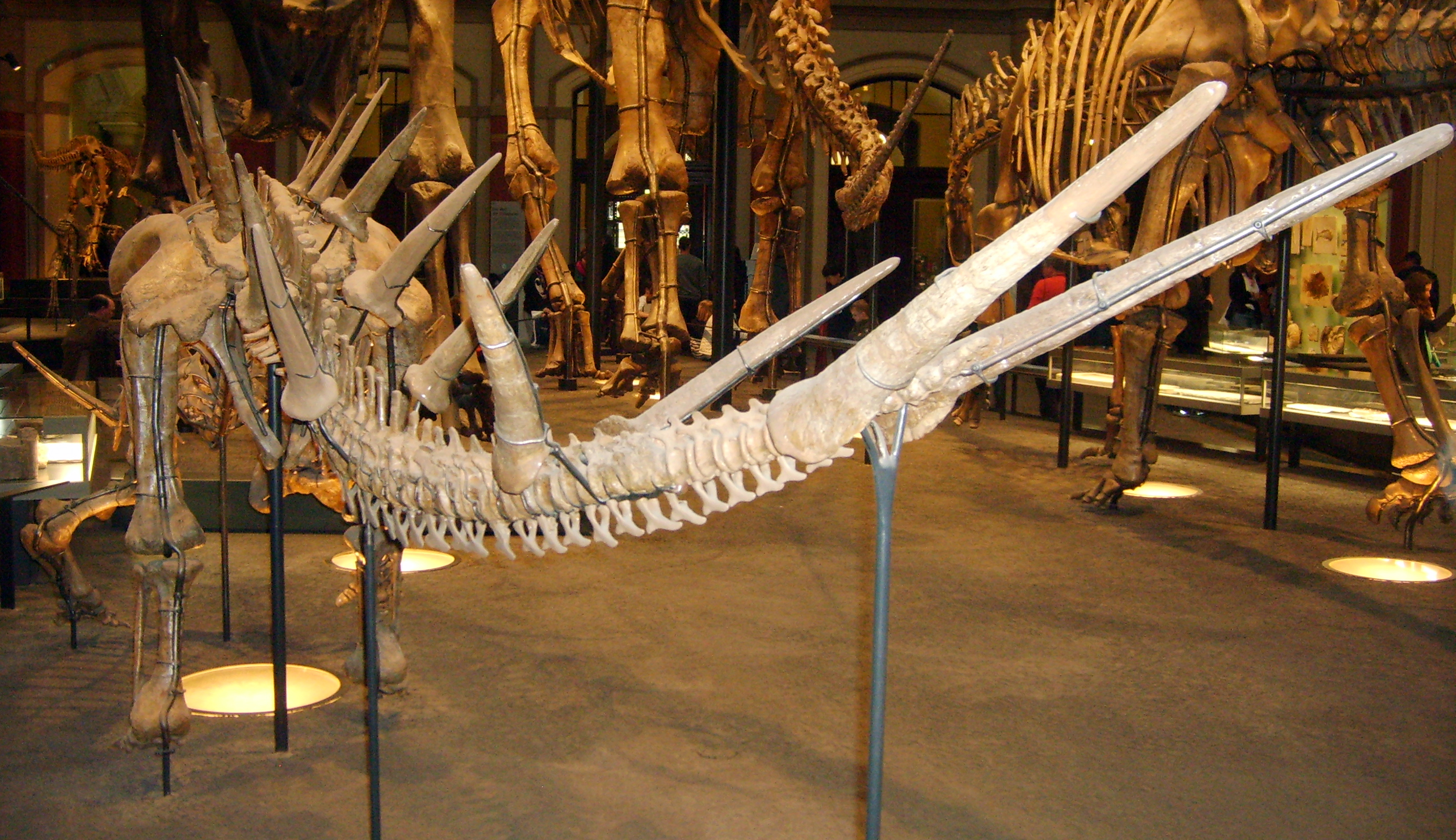 Tail of Kentrosaurus aethiopicus at the Museum für Naturkunde, Berlin.